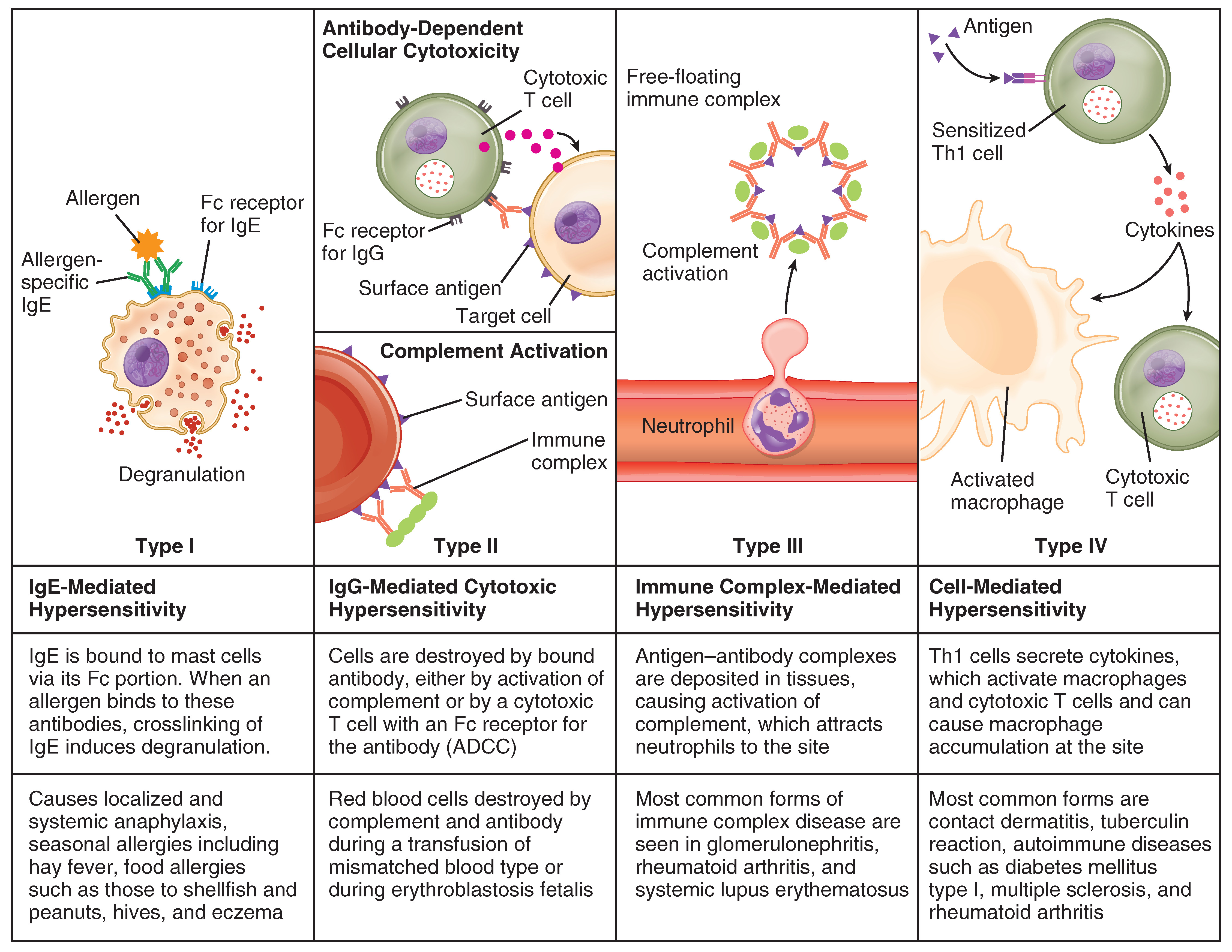 Illustration from Anatomy & Physiology, Connexions Web site. Jun 19, 2013.